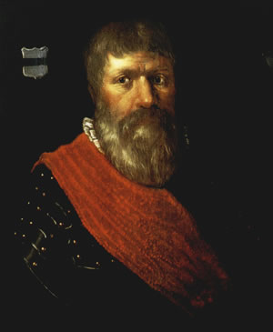 Berend (Bernt) van Hackfort (1475-1557)